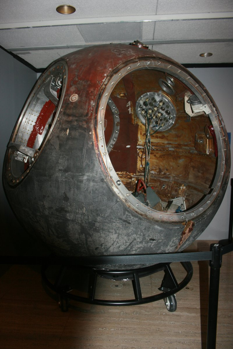 Soviet Vostok Spacecraft. I took this picture at a public display in the LBJ Library and Museum, Austin Texas.